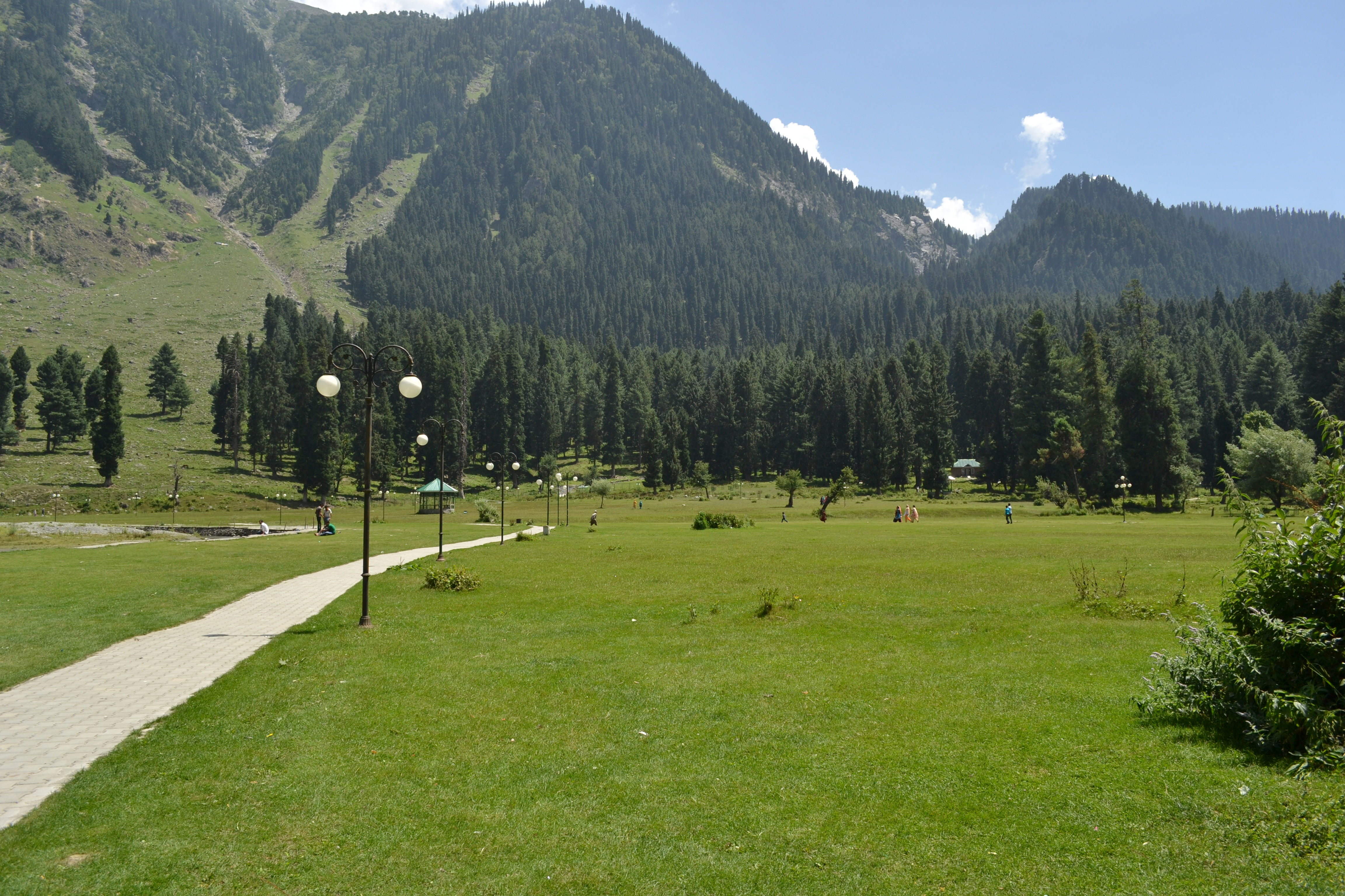 Betaab Valley is located in Pahalgam district of Jammu and Kashmir state in India.